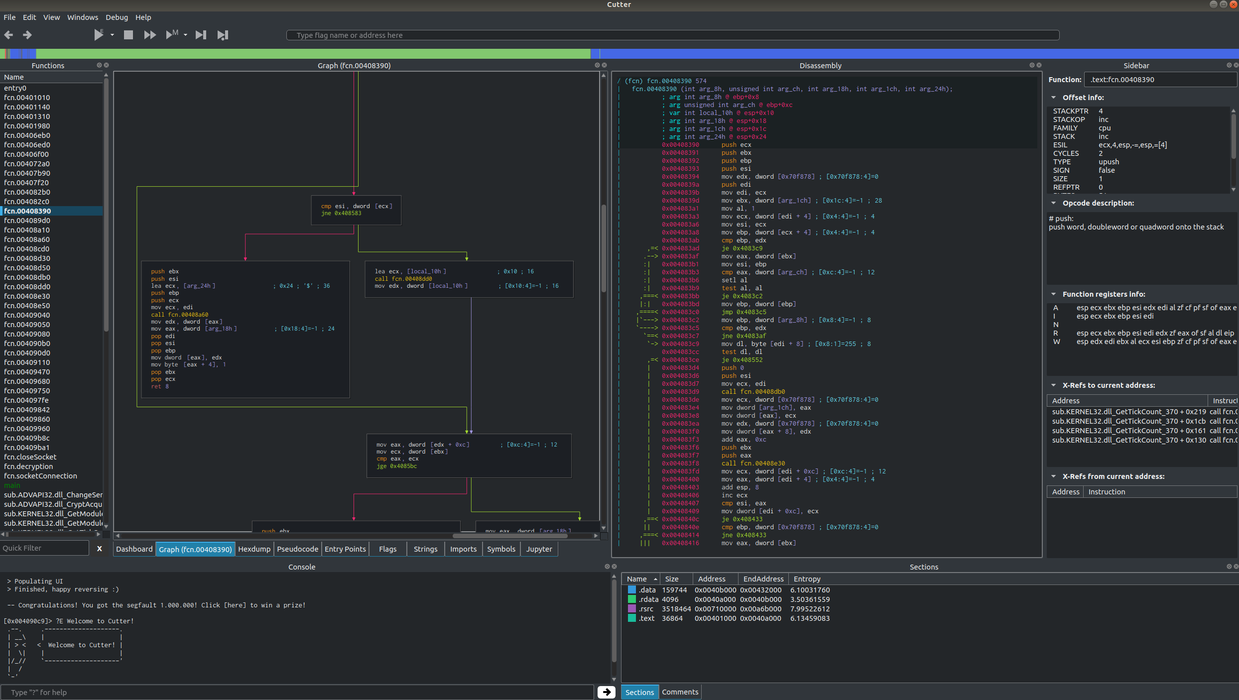 This screenshot shows the core functionality of Cutter, the first official radare2 GUI